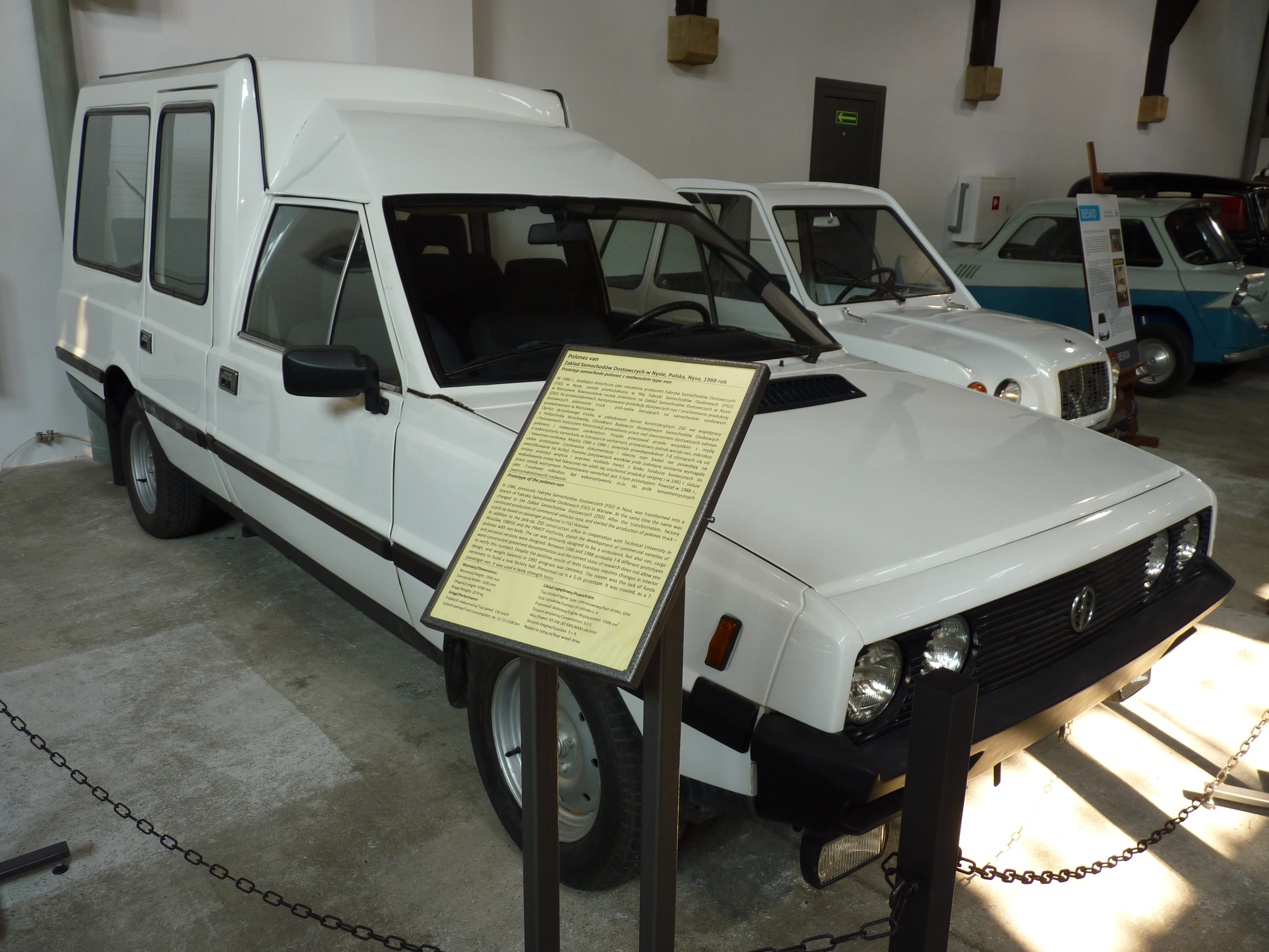 Classic Moto Show 2014 in Kraków.